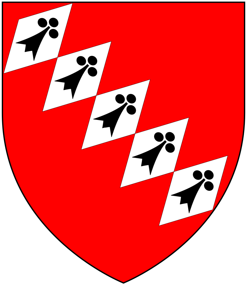 Arms of Hele of Hele in the parish of Cornwood, Devon: Gules, five fusils in bend argent on each an ermine spot (Pole, Sir William (d.1635), Collections Towards a Description of the County of Devon, Sir John-William de la Pole (ed.), London, 1791, p.487)